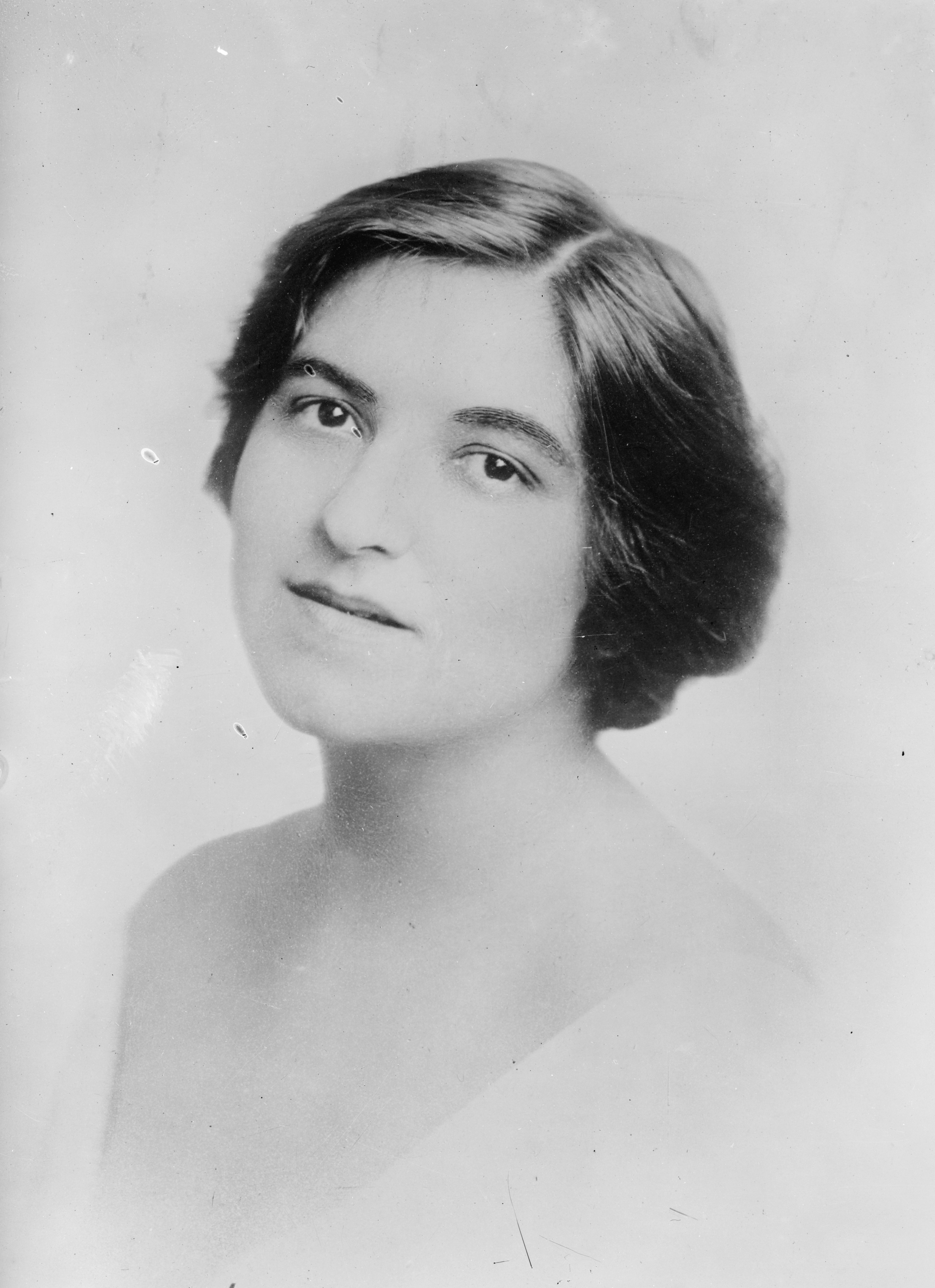 Ivy Scott - Century Opera